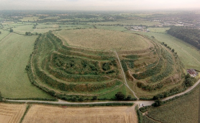 Old Oswestry Hillfort. Above and looking along the entrance to the Hillfort and across Shropshire. Intersecting with Wat's Dyke.